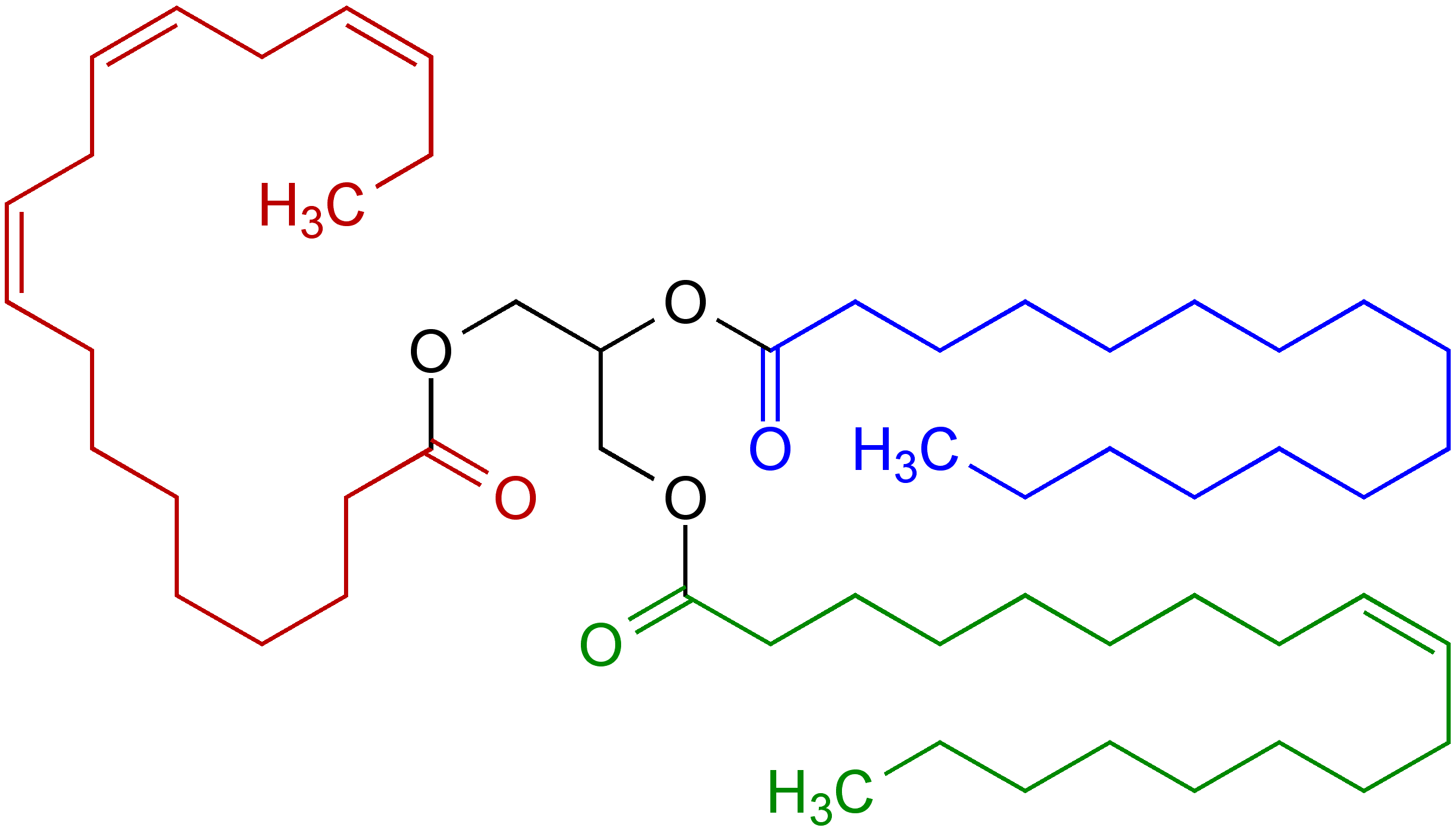 Triglyceride_Structural_Formulae